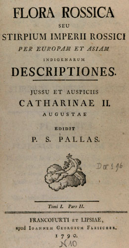 Cover page book «Flora rossica»